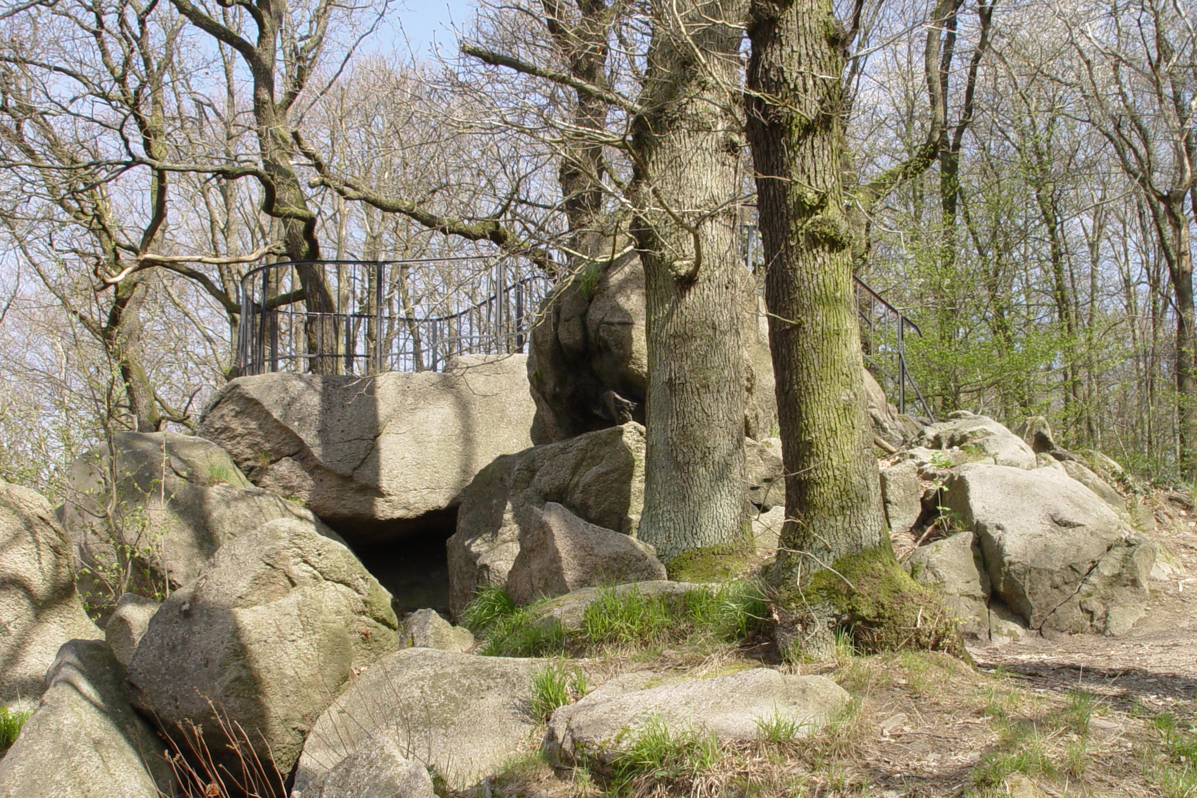 Aschaffenburg, Godelsberg, Aussichtspunkt "Teufelskanzel"This is a photograph of an architectural monument.